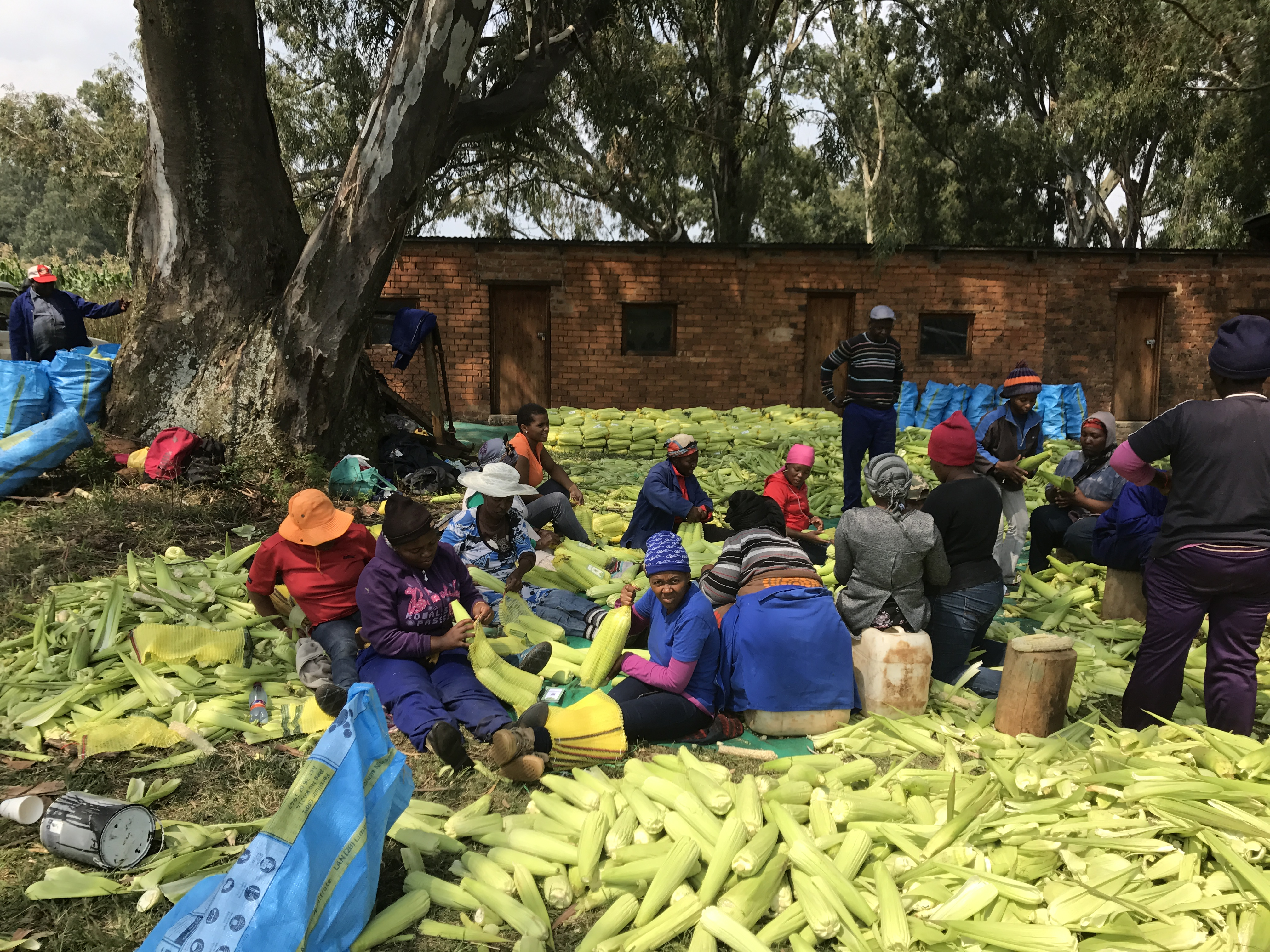 Farm workers cleaning and packing maize This is an image of "African people at work" from South Africa